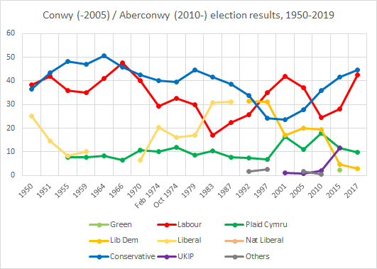 Conwy election history